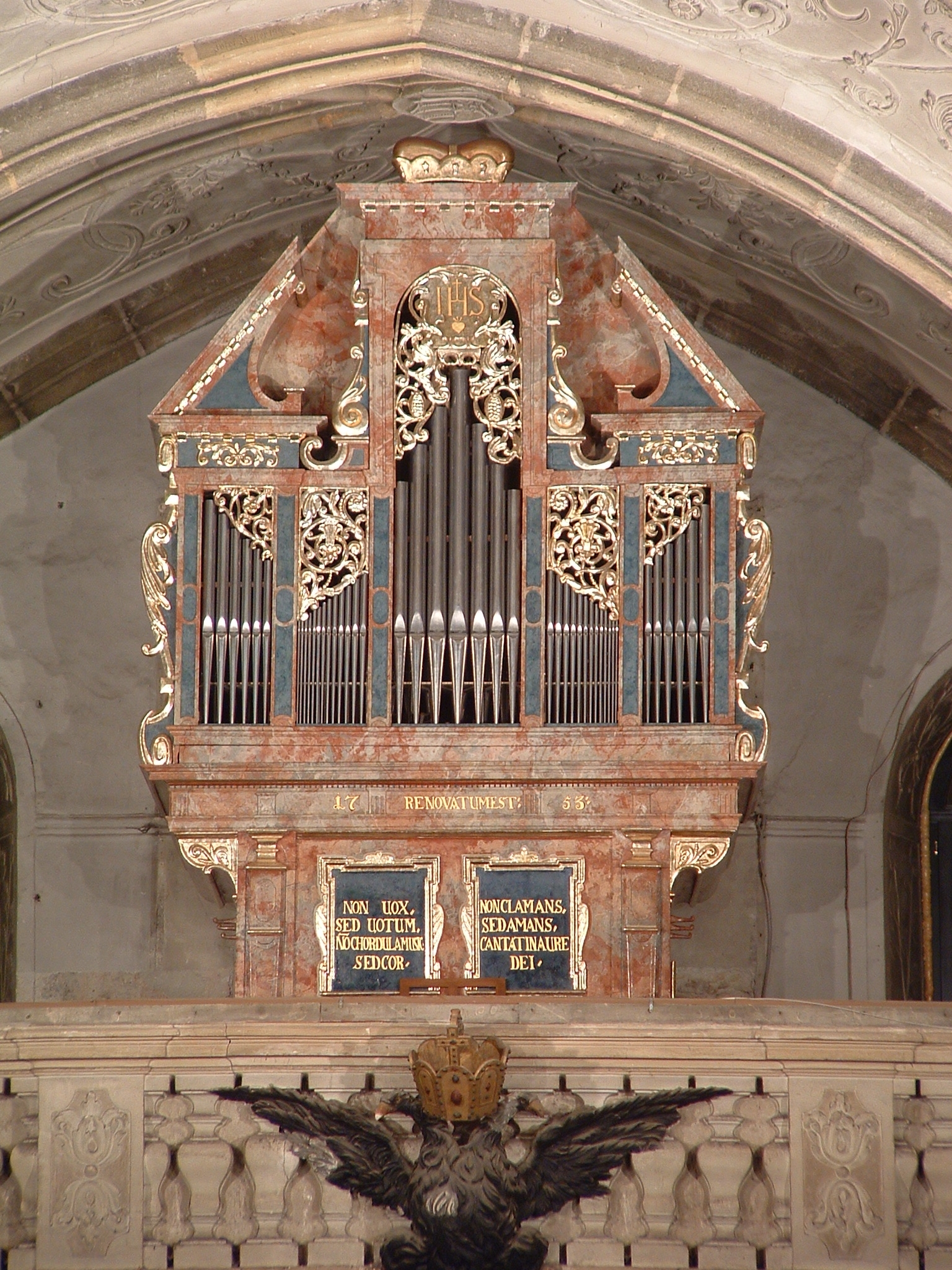 The oldest organ of Hungary in Sopron (Saint George church) - built 1633 by Johann Wöckherl.